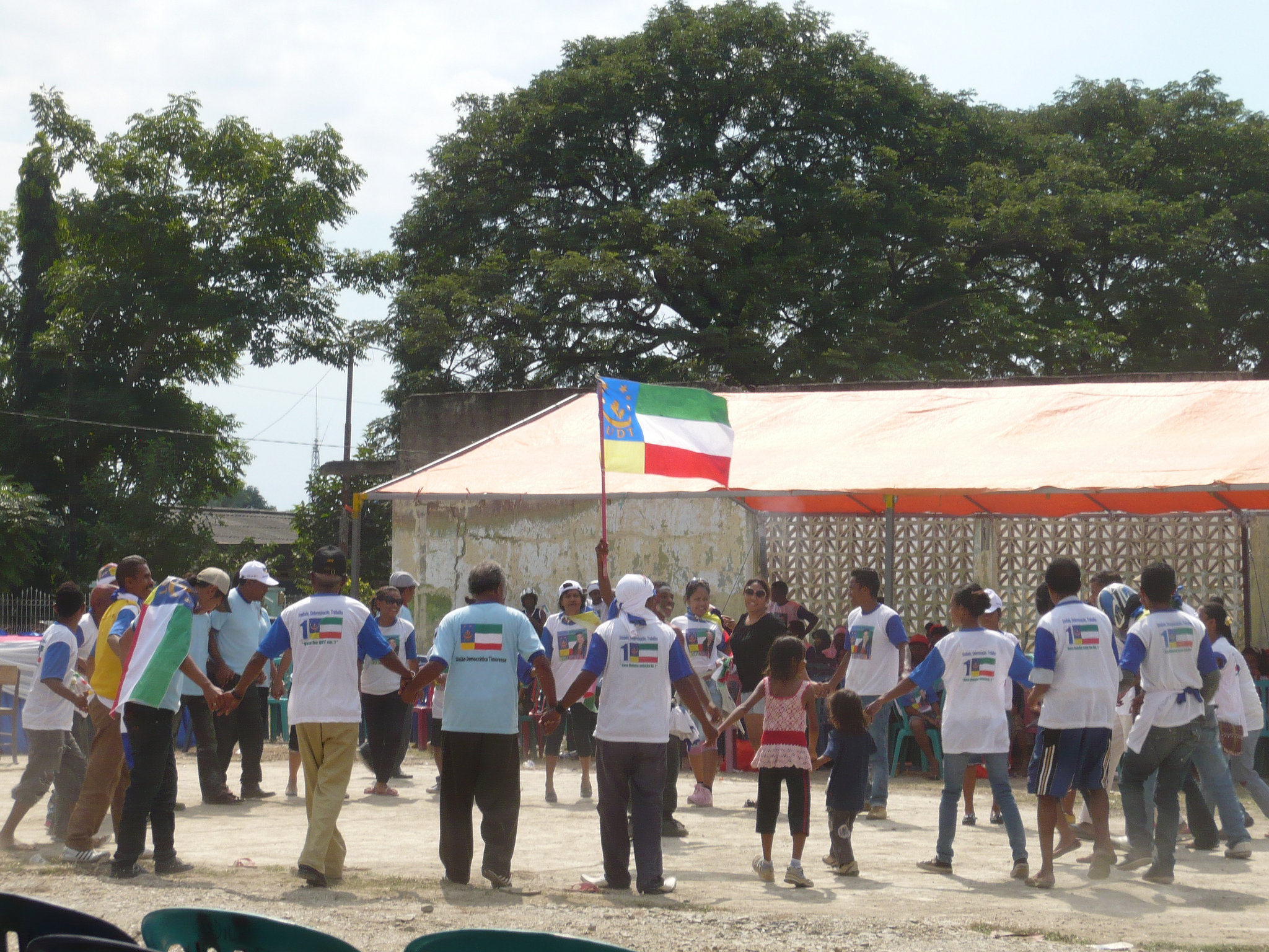 Tebetebe dance at a political campaign: UDT campaign